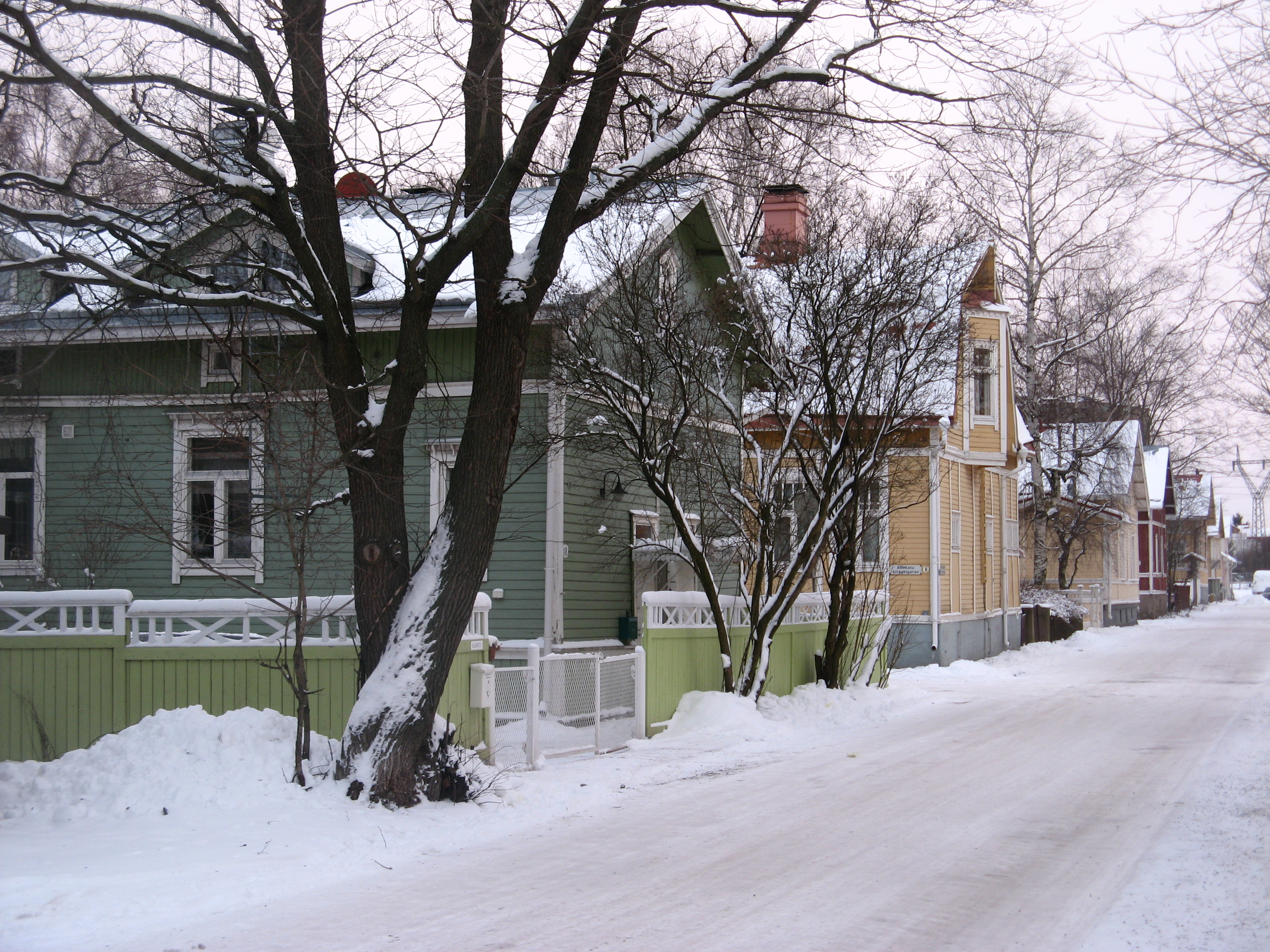 Lonttistentie in Lonttinen in Turku in early winter.